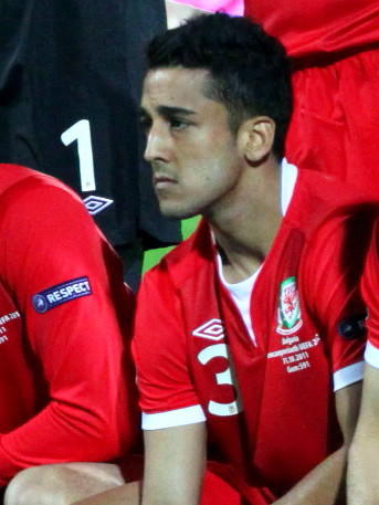 Wales national football team in 2011